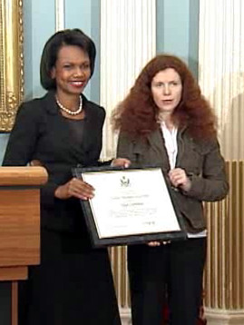 Remarks At the 2008 International Human Rights Day Awards Ceremony - Secretary Condoleezza Rice and Yulia Latynina